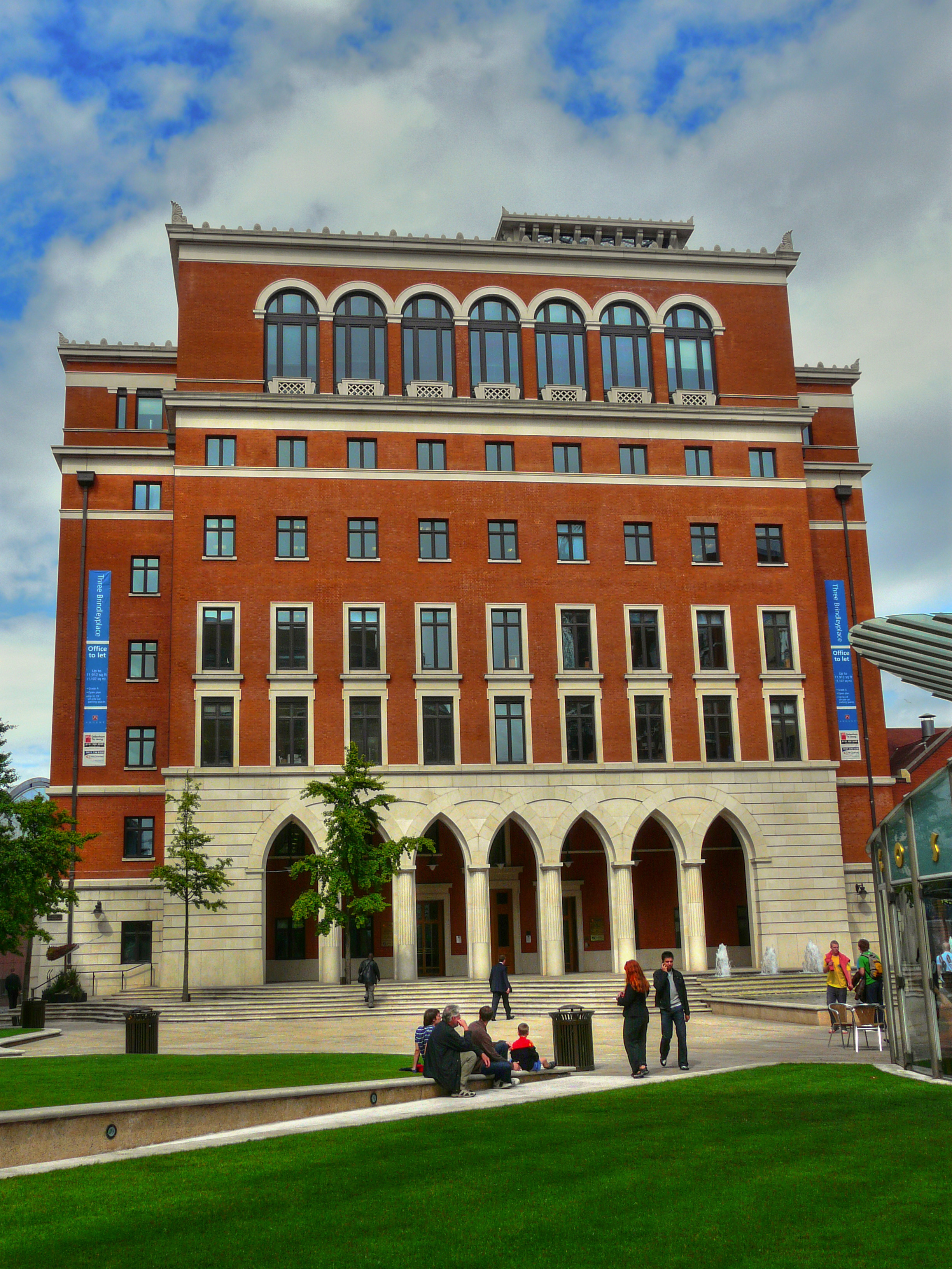 A photo of 3 Brindleyplace with some HDR processing.